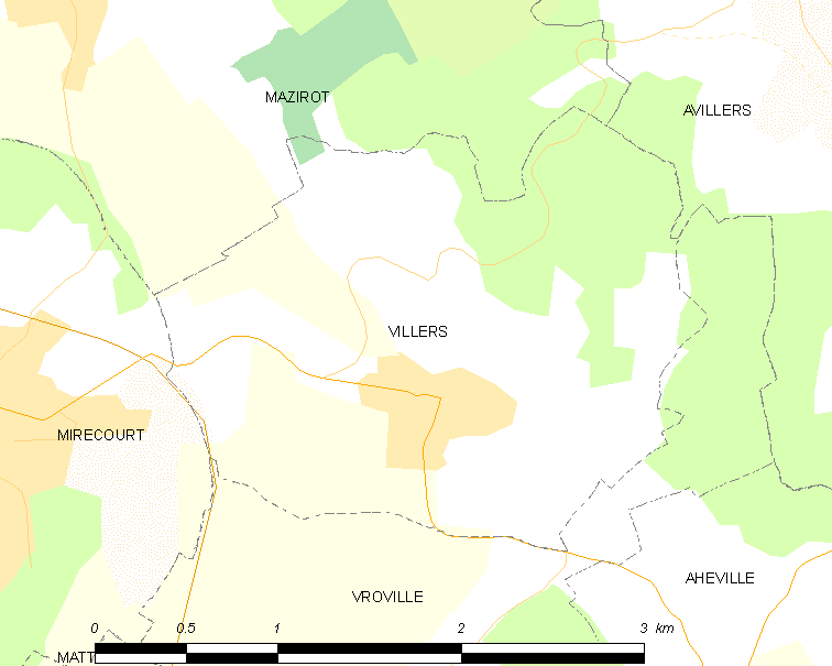 Map of French municipality Villers